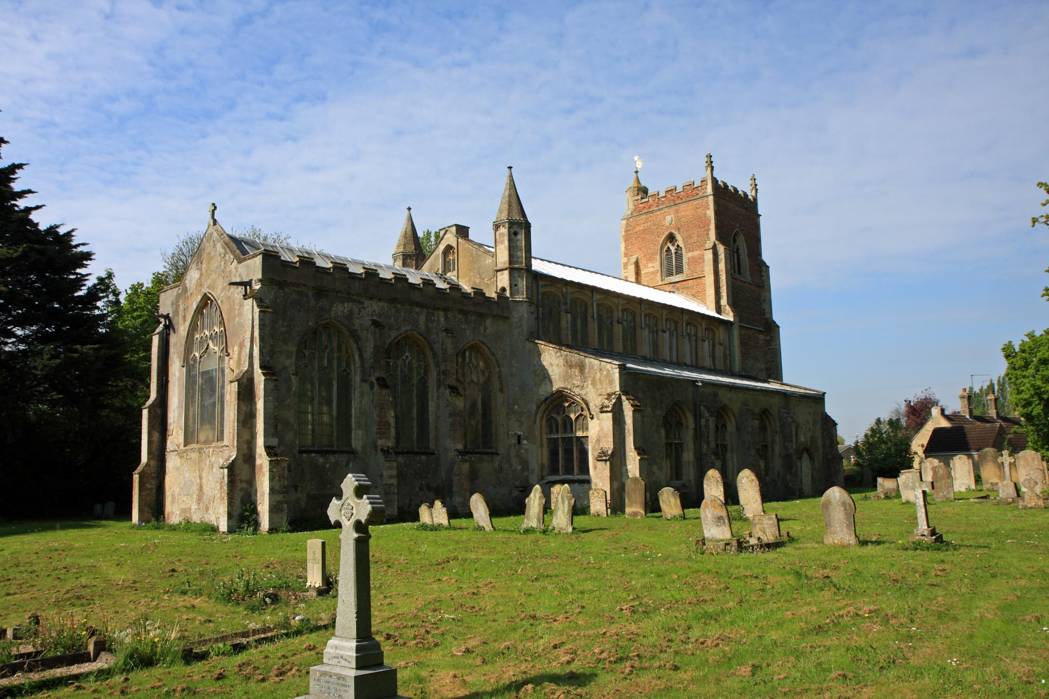 I found it locked.